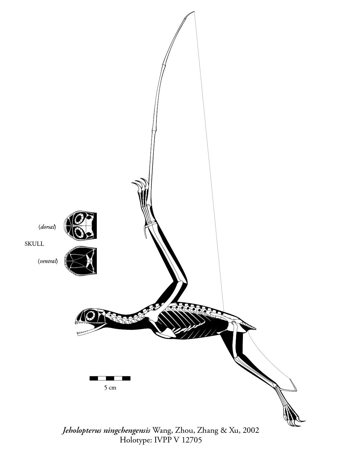 A skeletal reconstruction of Jeholopterus ningchengensis.